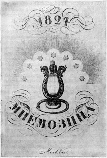 Mnemozina magazine cover